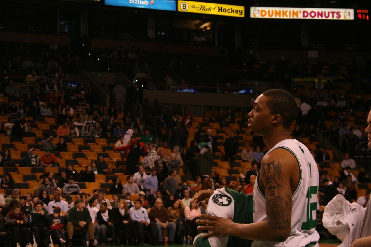 Allan Ray, formerly of the Boston Celtics